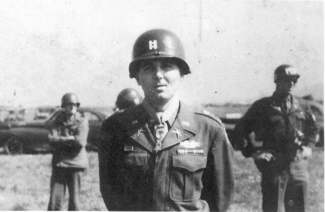 United States Army officer Charles Murray after he was presented with the Medal of Honor on July 5, 1945.